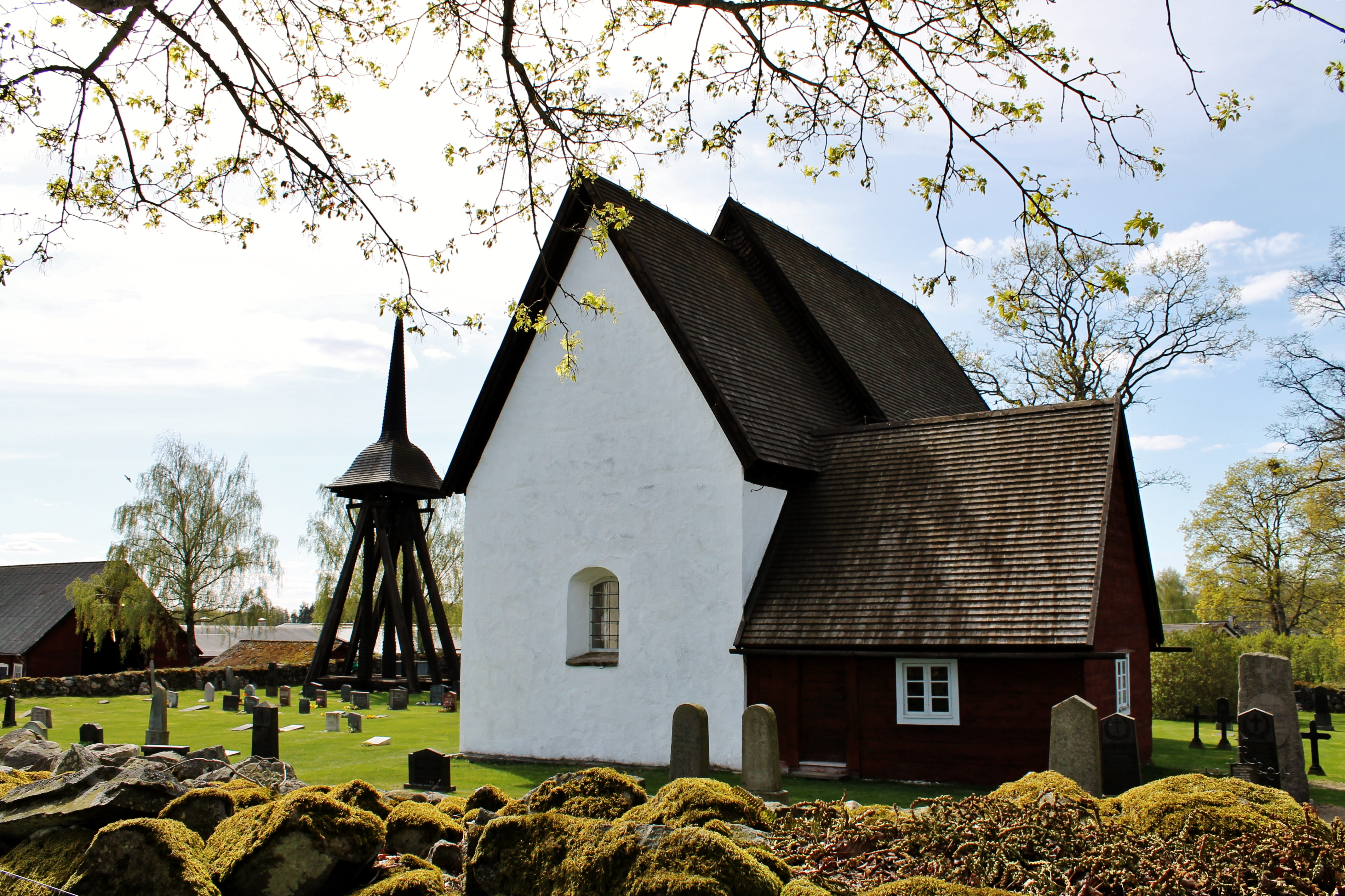 Jäts Old ChurchThe church is a Romanesque building was erected in 1226 according to dendrochronological analysis.